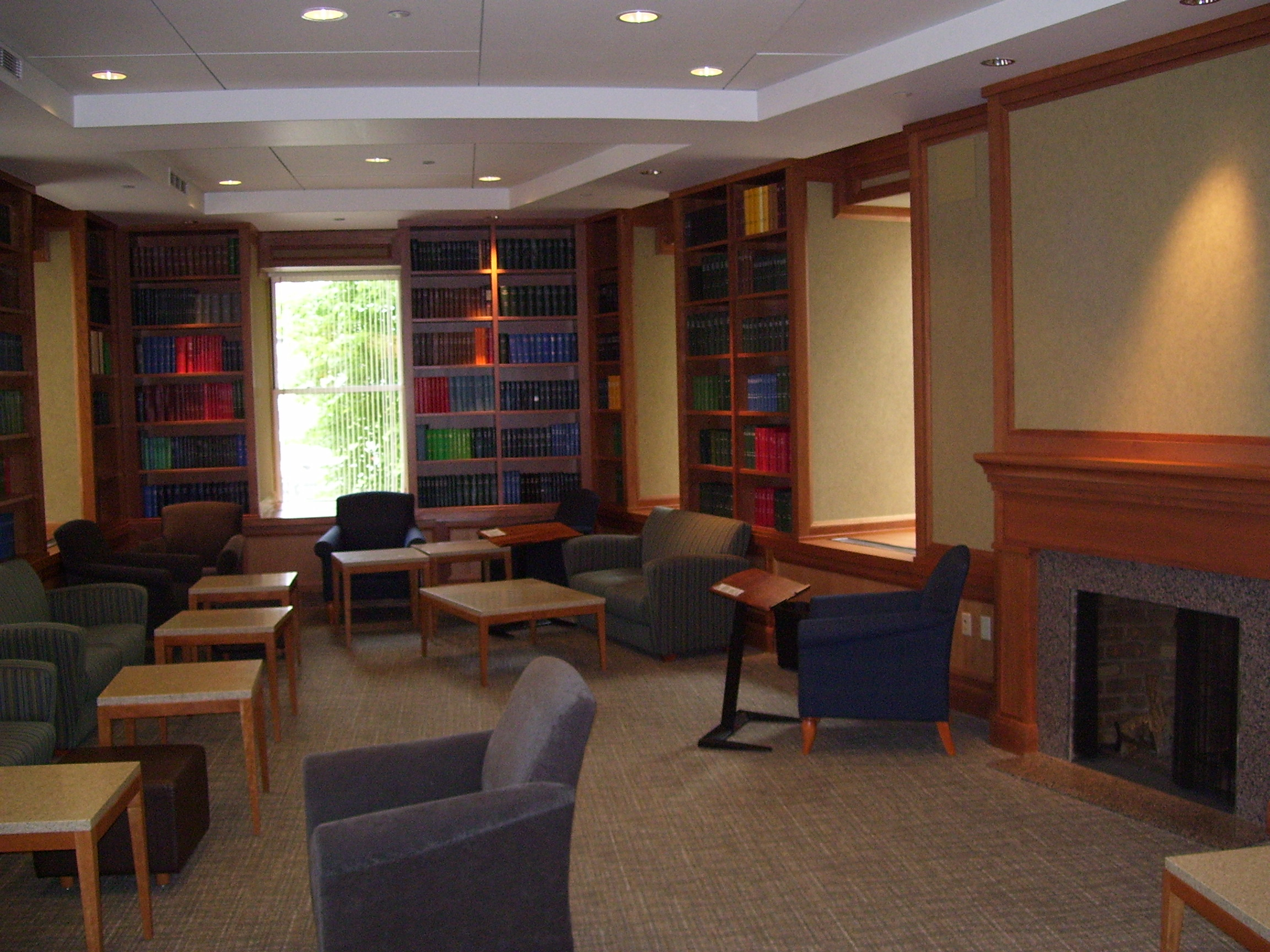 This is my photo from 2008 of Sawyer Library at Suffolk University.